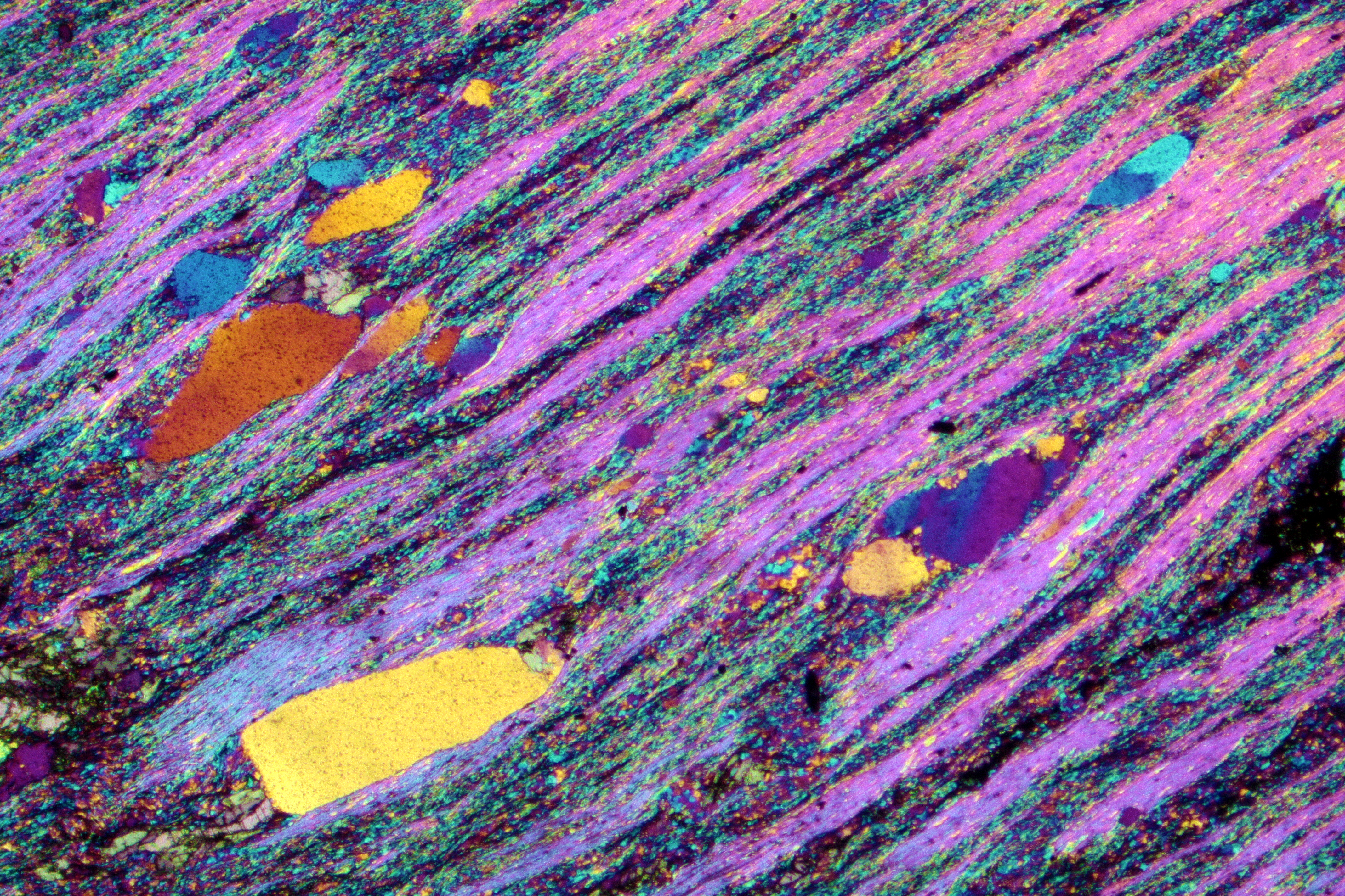 Ductile deformed rocks or mylonite. Crossed nicols image with compensator plate, magnification 2x (Field of view = 7mm)